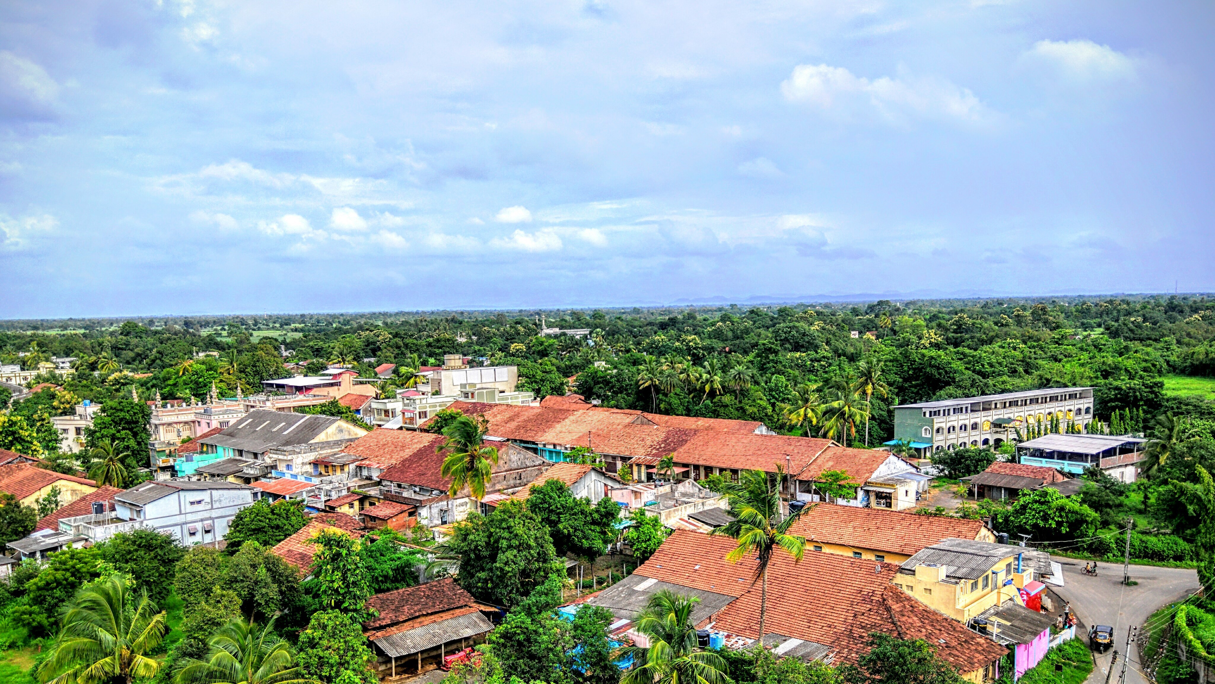 it is Jogwad Village full picture by Aezaz Desai